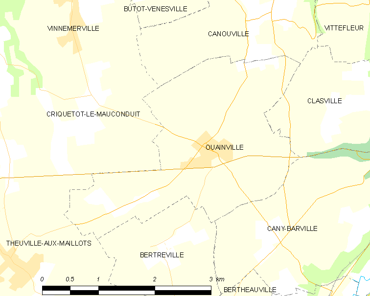 Map of French municipality Ouainville